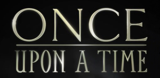 Logo from the television program Once Upon a Time